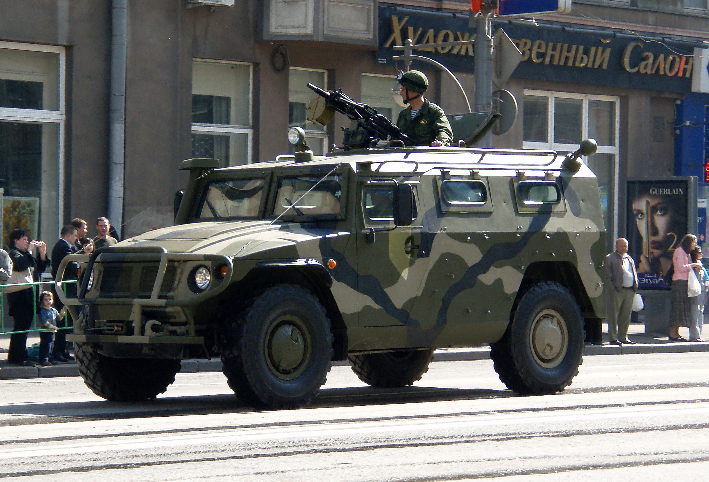 GAZ-233014 Tigr on a Victory parade, 2008